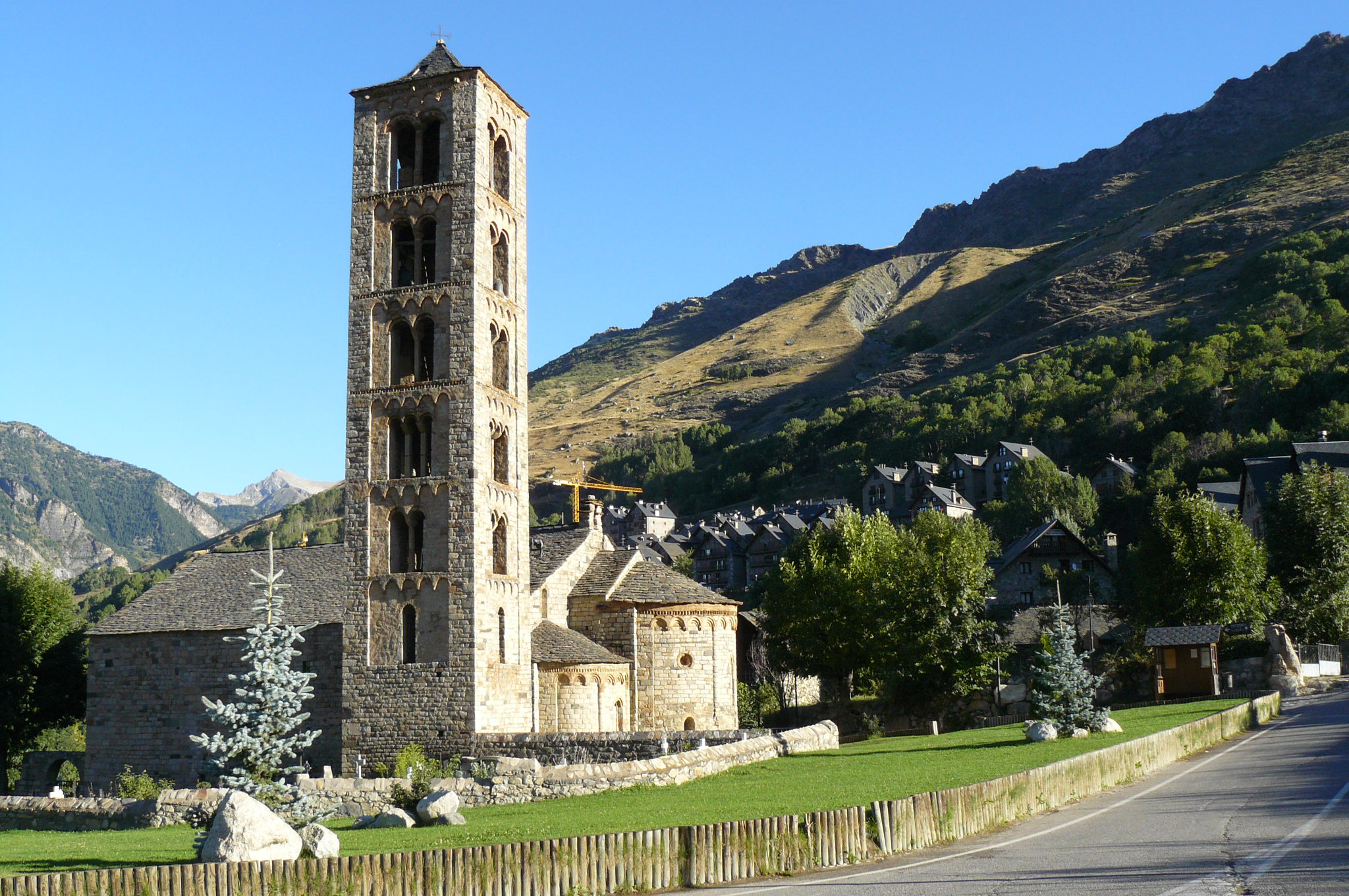 Sant Climent church at Taüll